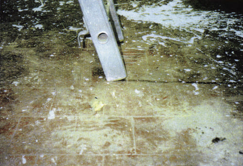 photo from expert report 1992